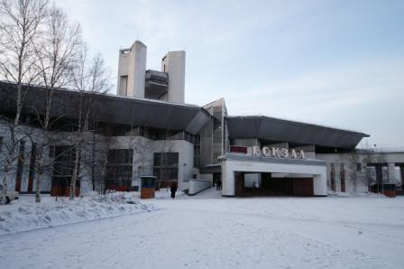 Train station Tynda, Baikal-Amur rail line. Amur region, Russia.